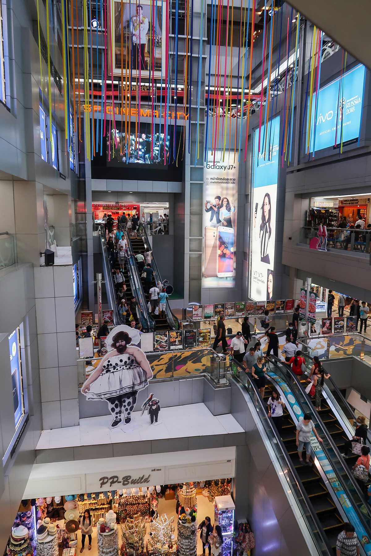 MBK Center Atrium